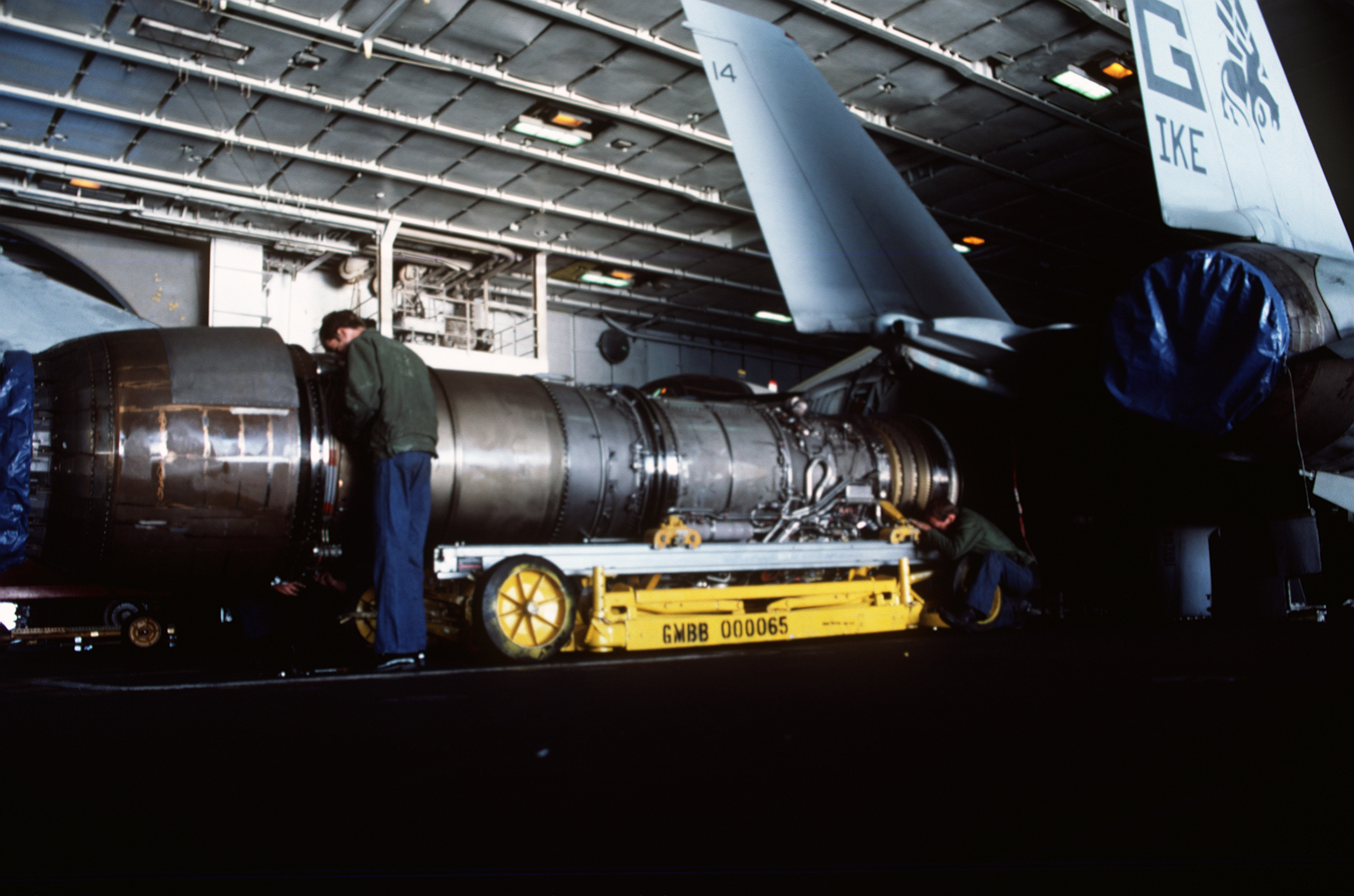 Crew members prepare to install an Pratt & Whitney TF30-P-412 A turbofan jet engine in a Fighter Squadron 43 (VF-143) F-14A Tomcat aircraft in the hangar deck aboard the nuclear-powered aircraft carrier USS DWIGHT D. EISENHOWER (CVN 69). Location: Unknown